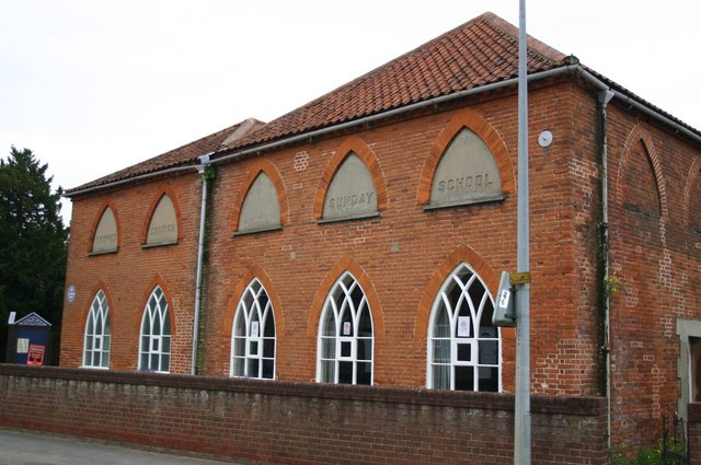 Cowper Church Sunday School, East Dereham, near to Dereham, Norfolk, Great Britain. The name of Cowper is well known in this area as one of the early Non-Conformist churchmen. This building is now the Scout Headquarters, so youth still play a big part in its use.